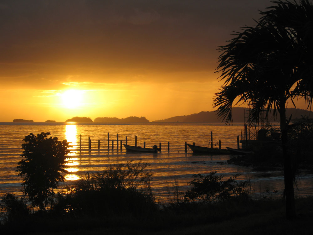 View of the Five Islands, Carrera Island and Point Gourde near in Chaguaramas, Trinidad.